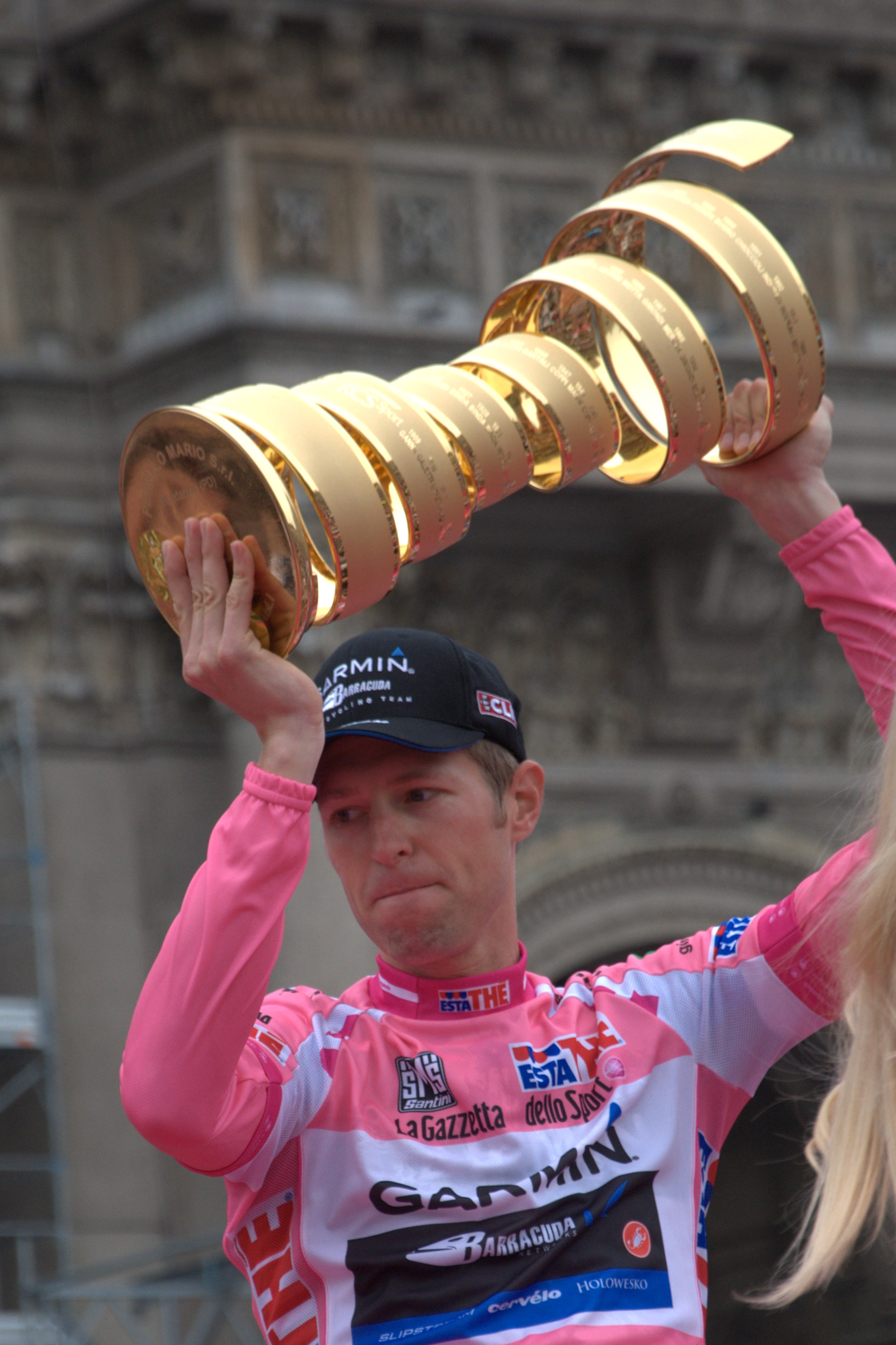 Ryder Hesjedal celebrating 2012 giro in Milano